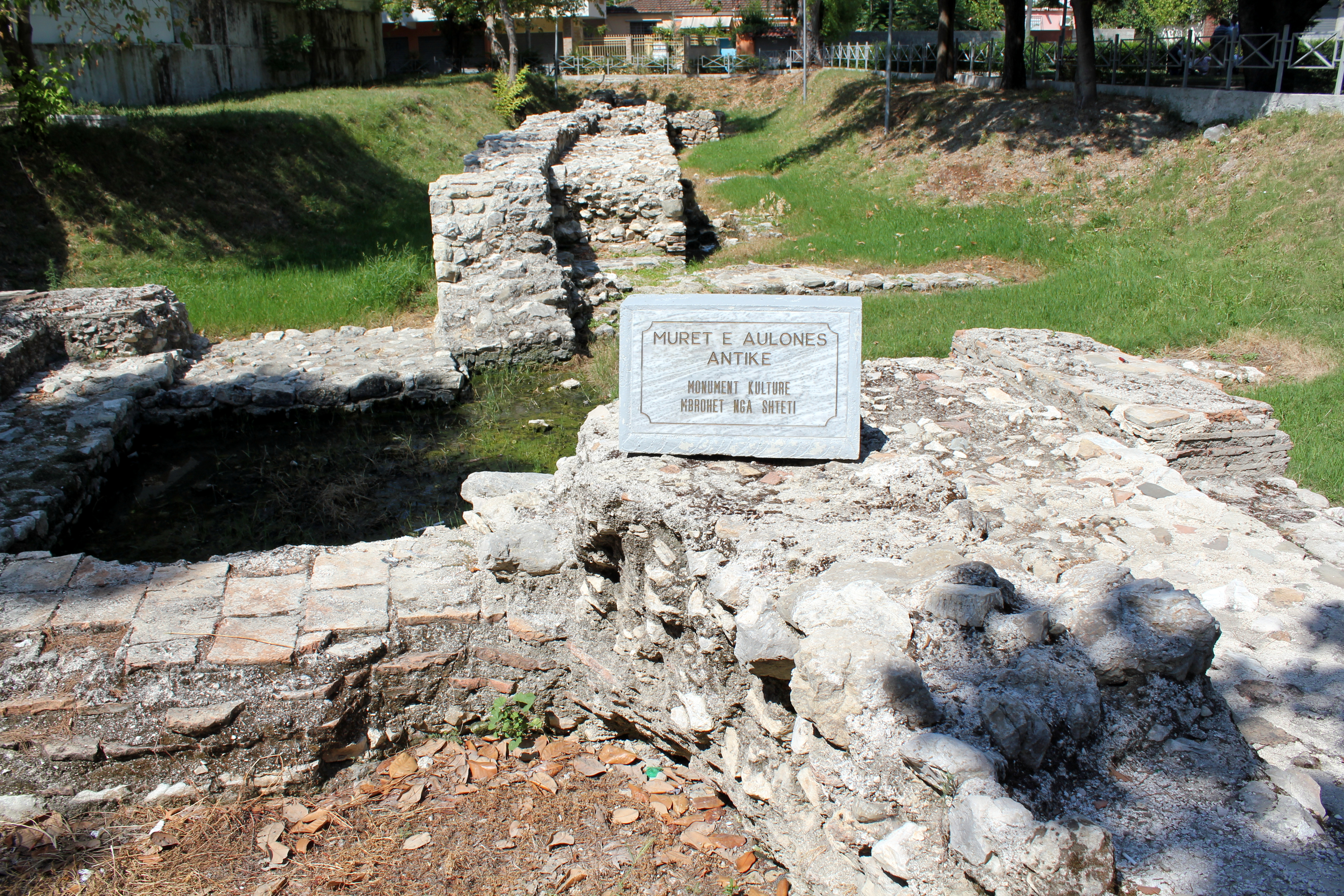 Walls of antique Aulona